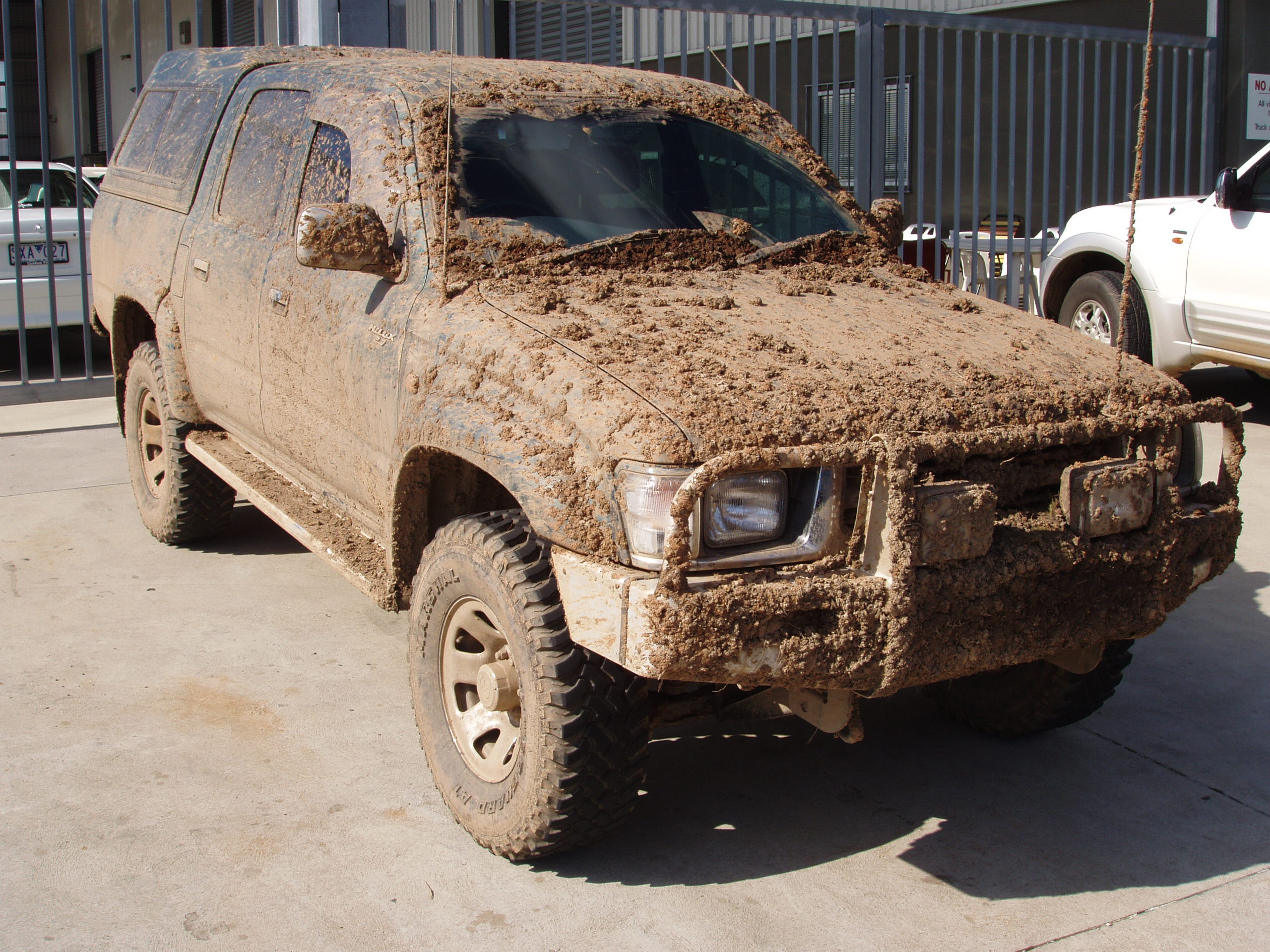 If only every car owner were as considerate, water storage levels would be at a record high...